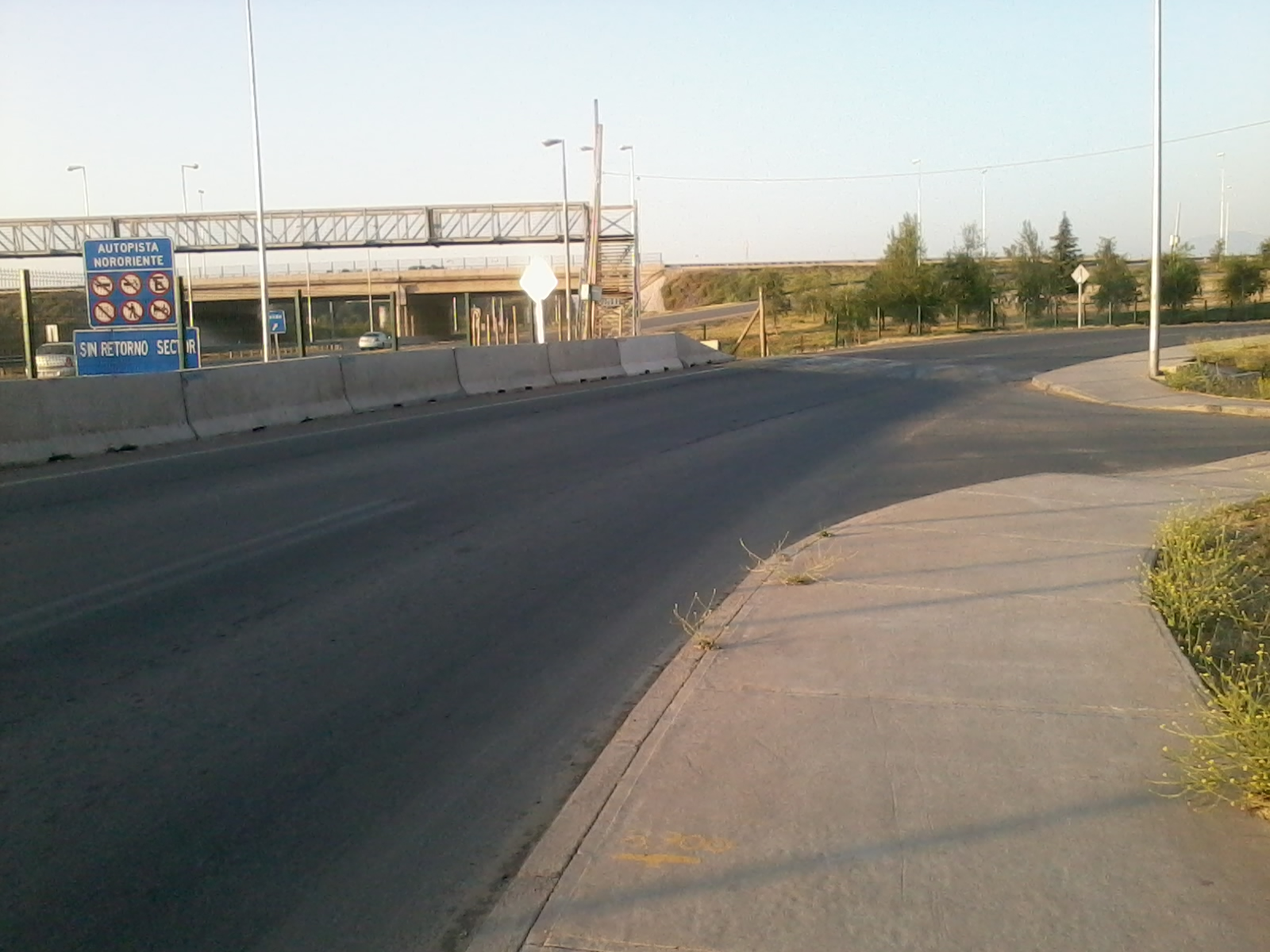 (highway)Autopista Nororiente & Autopista Los Libertadores